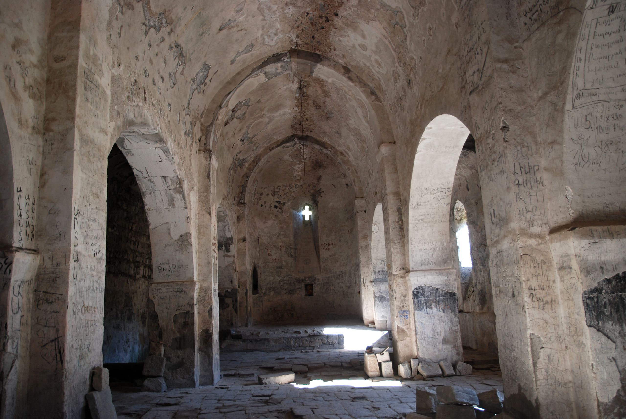 Khndzoresk, Hripsime church 45/5.20